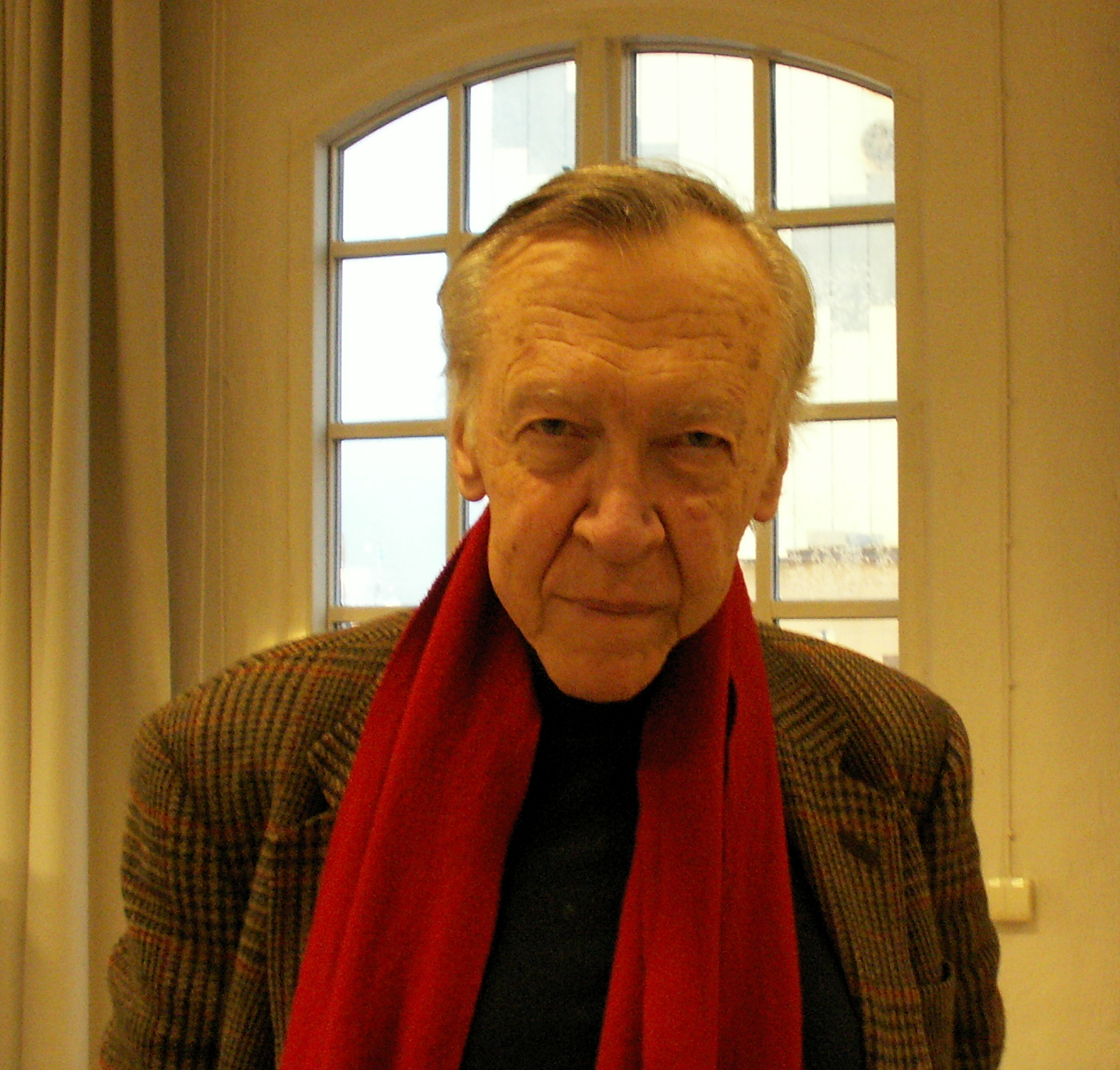 Norwegian writer and government scholar Eugene Schulgin. Photographed whilee visiting Litteraturhuset in Göteborg for a talk with the Swedish PEN club (on the theme of Russia).